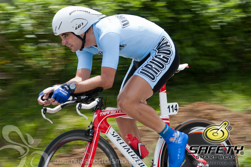 Uruguayan cyclist Jorge Soto, in the Pan American Cycling Championships 2011 Medellín